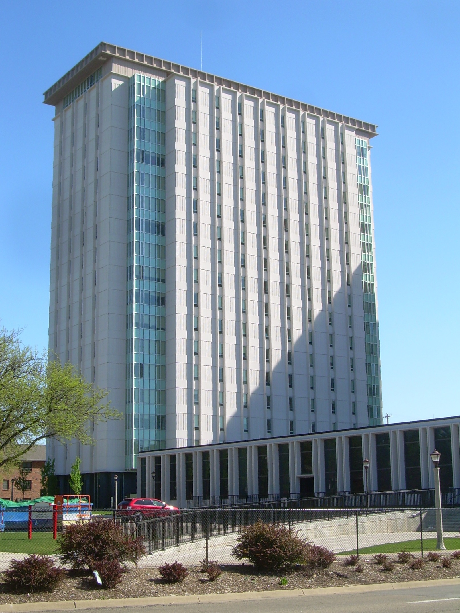 Manchester Hall, Illinois State University, Normal, Illinois.